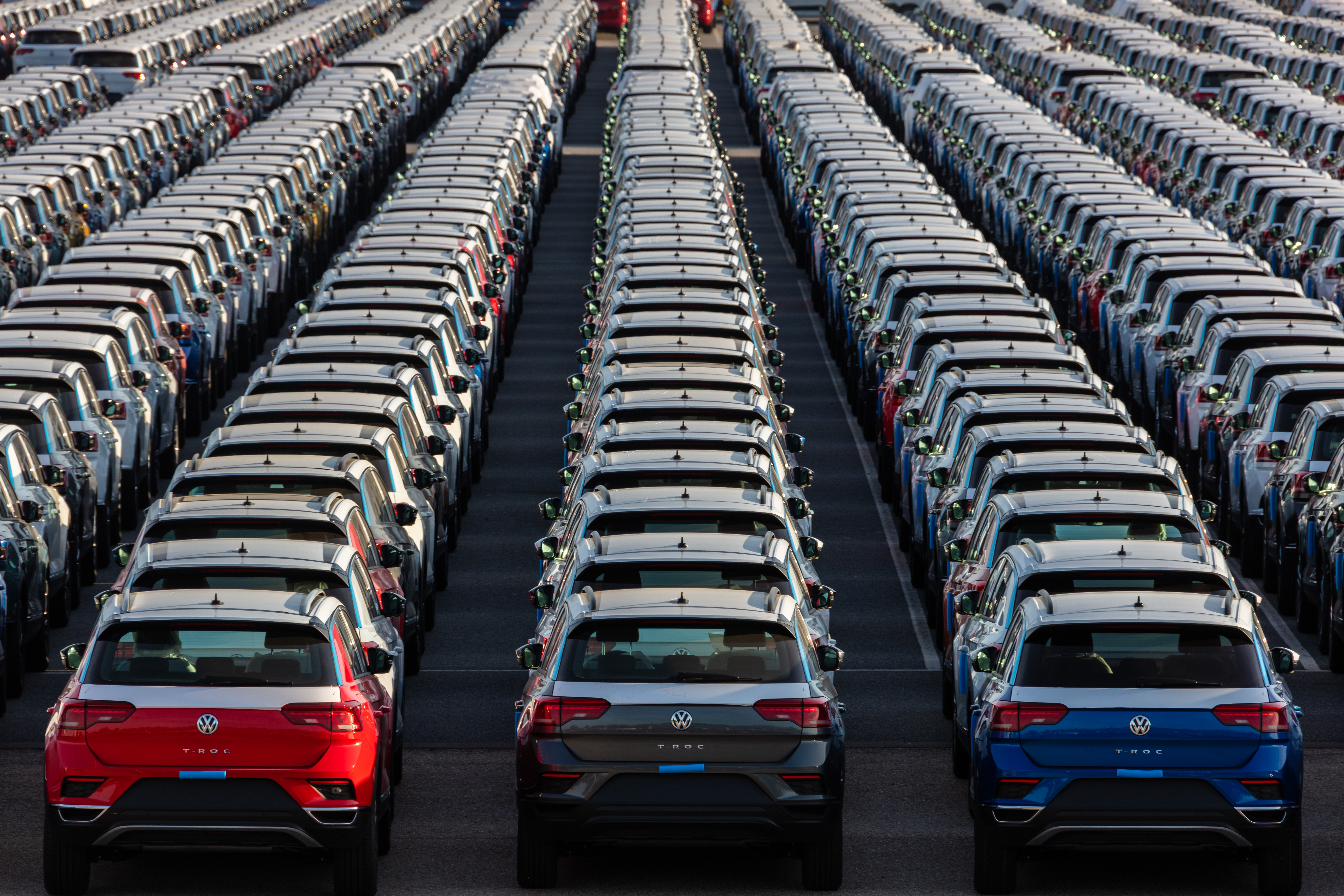 Automobiles in the port of Setúbal, Portugal